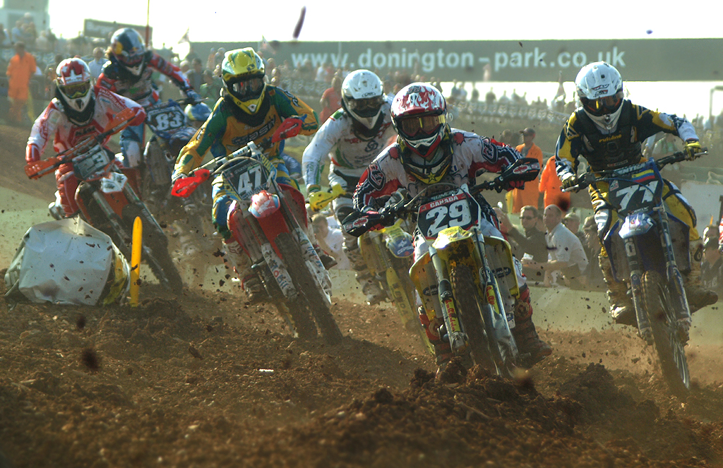 Red Bull FIM Motocross of Nations 2008, Donington Park (England)